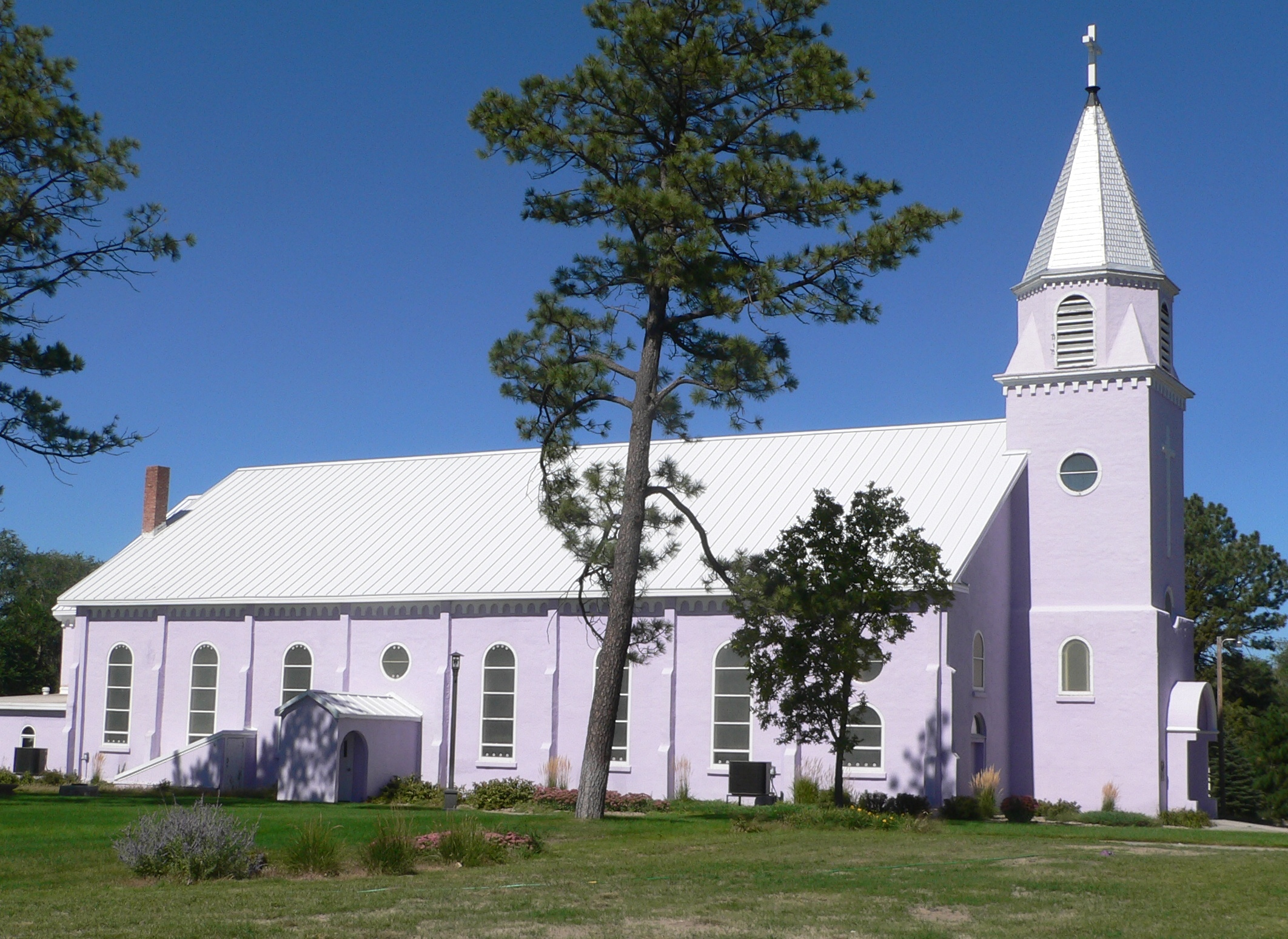 St. Charles Borromeo church in St. Francis, South Dakota; seen from the south.